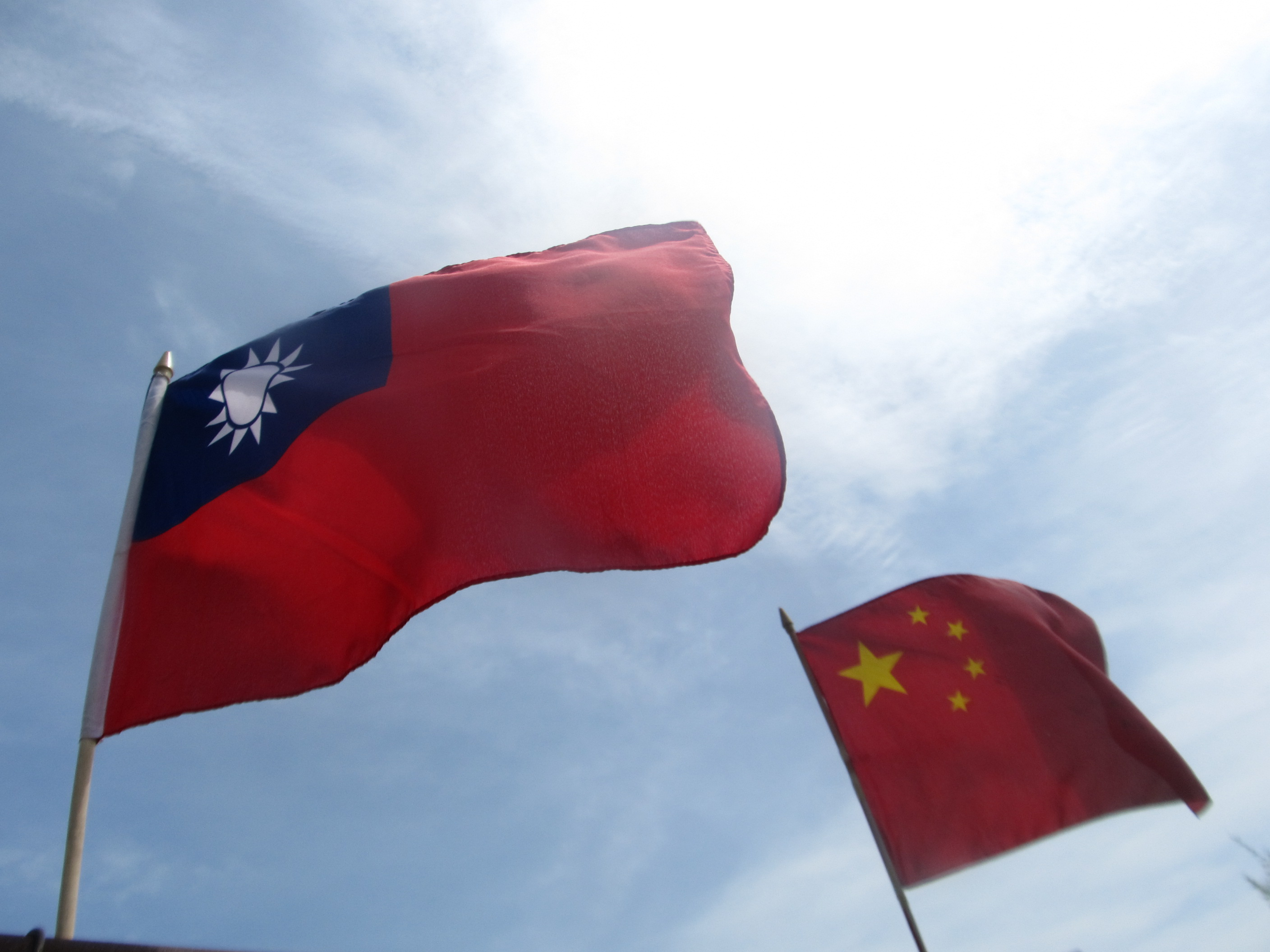 Flags of the Republic of China and the People's Republic of China. 中文（中国大陆）: 中华民国和中华人民共和国的旗帜。(Zhōnghuá mínguó hé zhōnghuá rénmín gònghéguó de qízhì.)